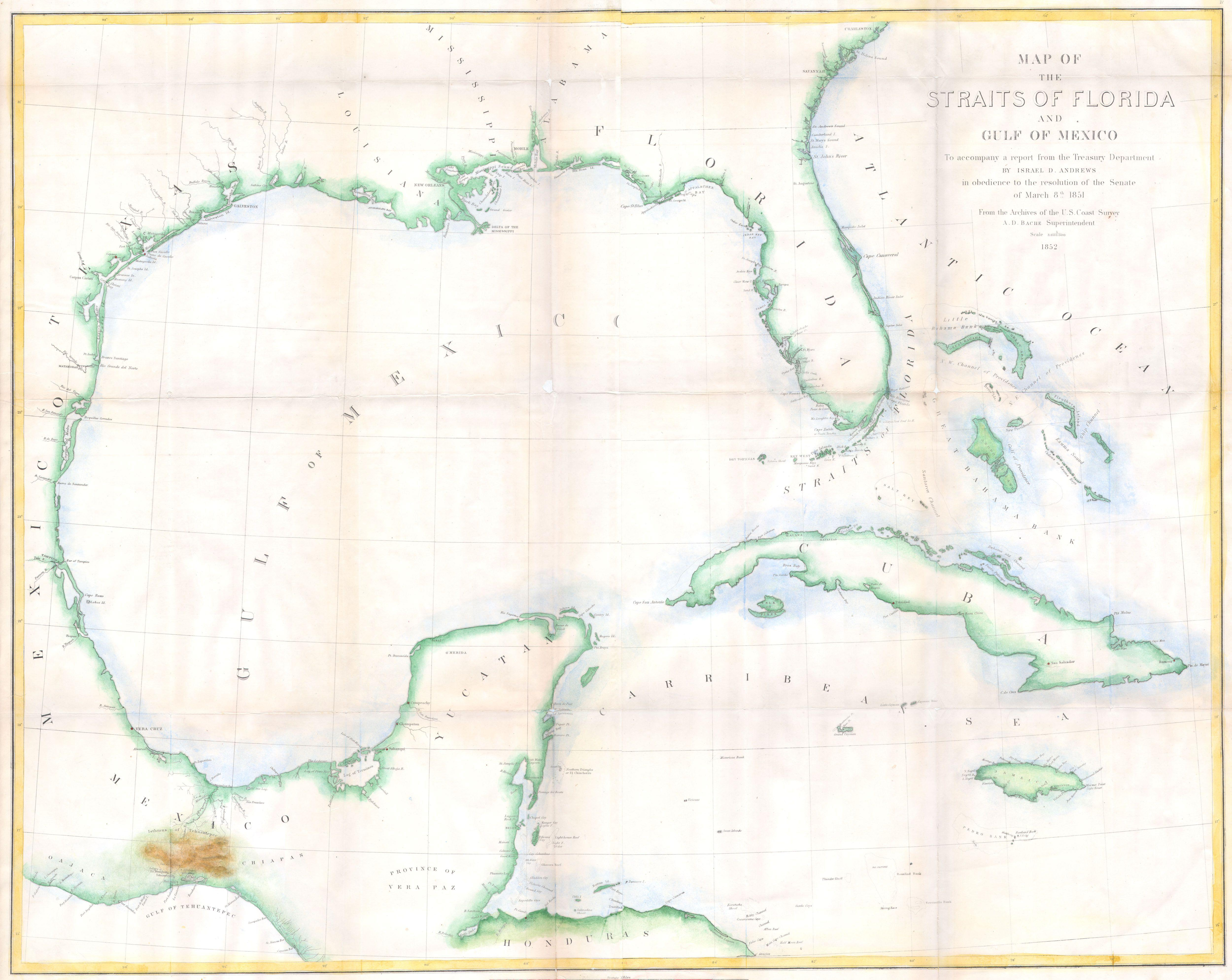 This is a rare large format costal chart depicting the full coast of the Gulf of Mexico, Florida, the Bahamas, The Isthmus of Tehuantepec, Yucatan, Cuba and Jamaica. It was issued in 1852 to accompany Israel D. Andrews’ report to the Senate. Depicts coastal cities and ports, offshore shoals, knolls, reefs, banks and other nautical hazards and some inland details, especially in the important overland crossing from Atlantic to Pacific of Tehuantepec, Mexico. Contemporary hand color. Andrews was the Consul of the United States for Canada and Trade and Commerce. U.S. Coastal Survey. Prepared under A. D. Bache. Publisher: The Office of the Coast Survey, founded in 1807 by Secretary of Commerce Albert Gallatin and President Thomas Jefferson, is the oldest organization of its kind in the U.S. Federal Government. The hard working and daring agents of the U.S. Coast Survey were the first explorers to accurately map the North American coast line, opening the ports of the west to trading vessels from Europe, America and Asia. Gallatin chose Swiss immigrant and West Point mathematics professor Ferdinand Hassler to direct the Coast Survey. Under the direction of Hassler, the Coast Survey developed a reputation for uncompromising dedication to the principles of accuracy and excellence. Hassler lead the Coast Survey until his death in 1843, at which time Alexander Dallas Bache, a great-grandson of Benjamin Franklin, took the helm. Under the leadership A. D. Bache, the Coast Survey did most of its most important work. During his Superintendence, Bache was steadfast advocate of American science and navigation and in fact founded the American Academy of Sciences. The techniques developed by the United States Coast Survey were later used by the U.S. Geological and Geodetic Survey in the late 19th and early 20th century.